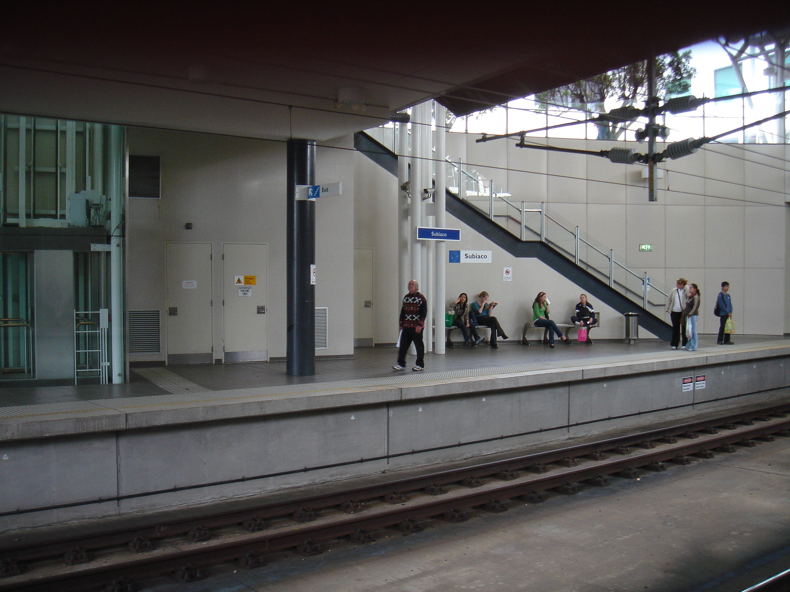 Transperth Subiaco Station, Platform Level. Perth, WA.